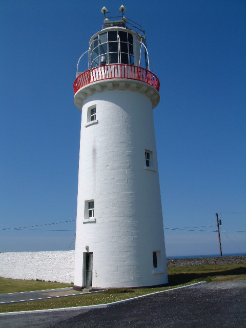 Loop Head Lighthouse. Loop Head Lighthouse on the Loop Head Peninsula, West Clare, Ireland.